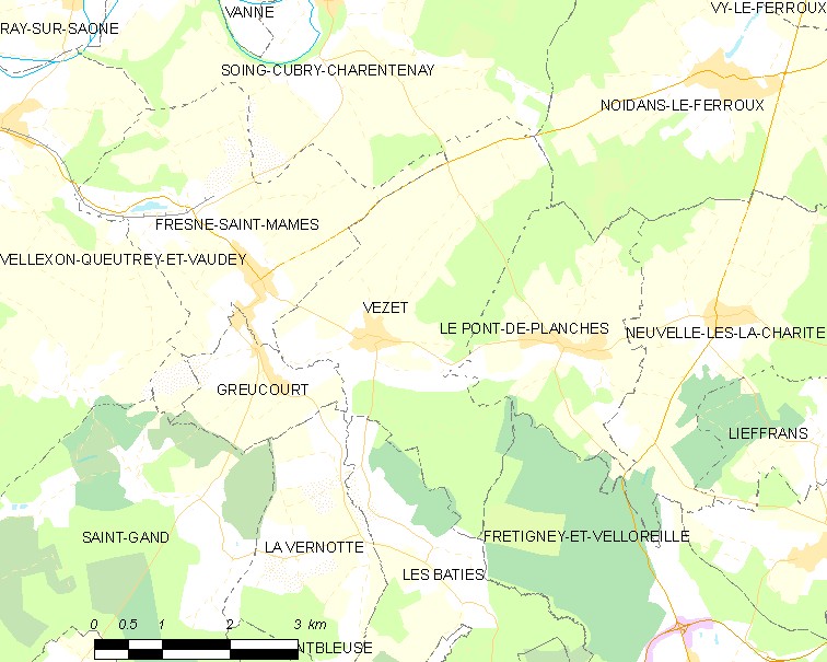 Map of French municipality